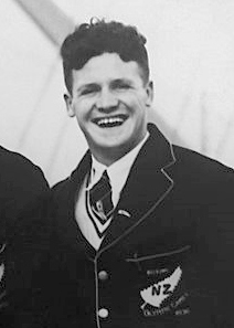 New Zealand athletes on board Wanganella on their way to the Berlin Olympics, 14th June 1936. Norman Fisher (boxer).